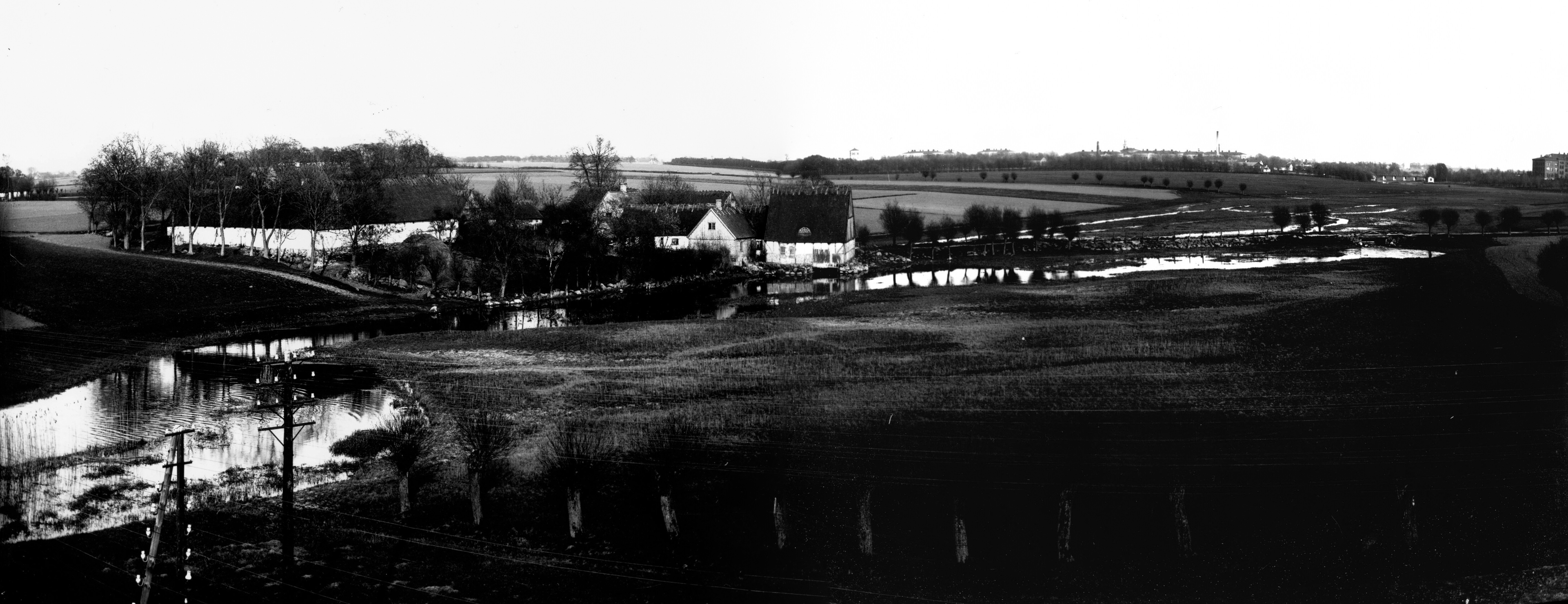 Källby was a small picturesque village in the region of Skåne, the southern most part of Sweden, that fell victim to the forces of "progress" in the 1960s and earlier.